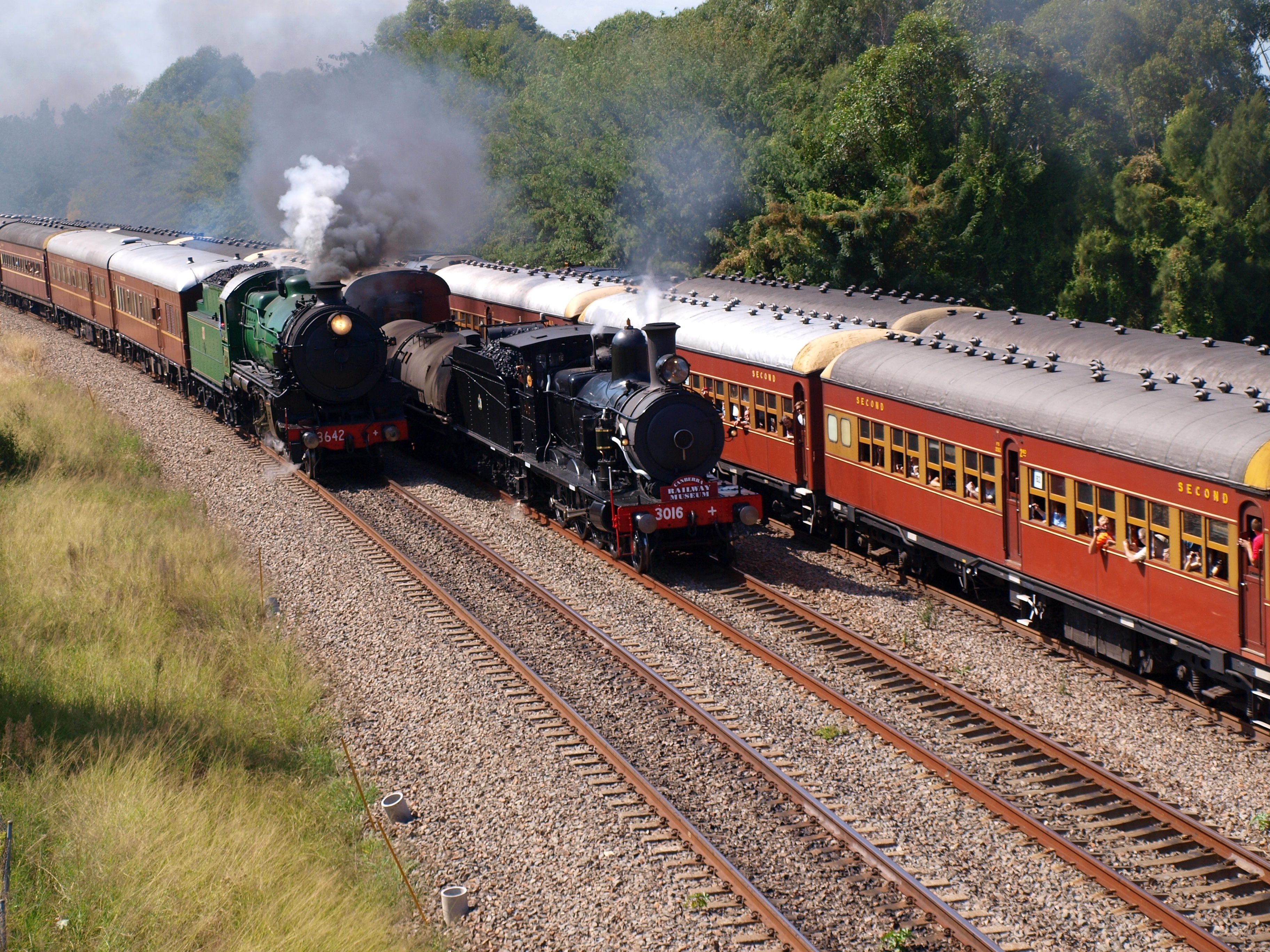 Steamfest 2016, Maitland, NSW, Australia